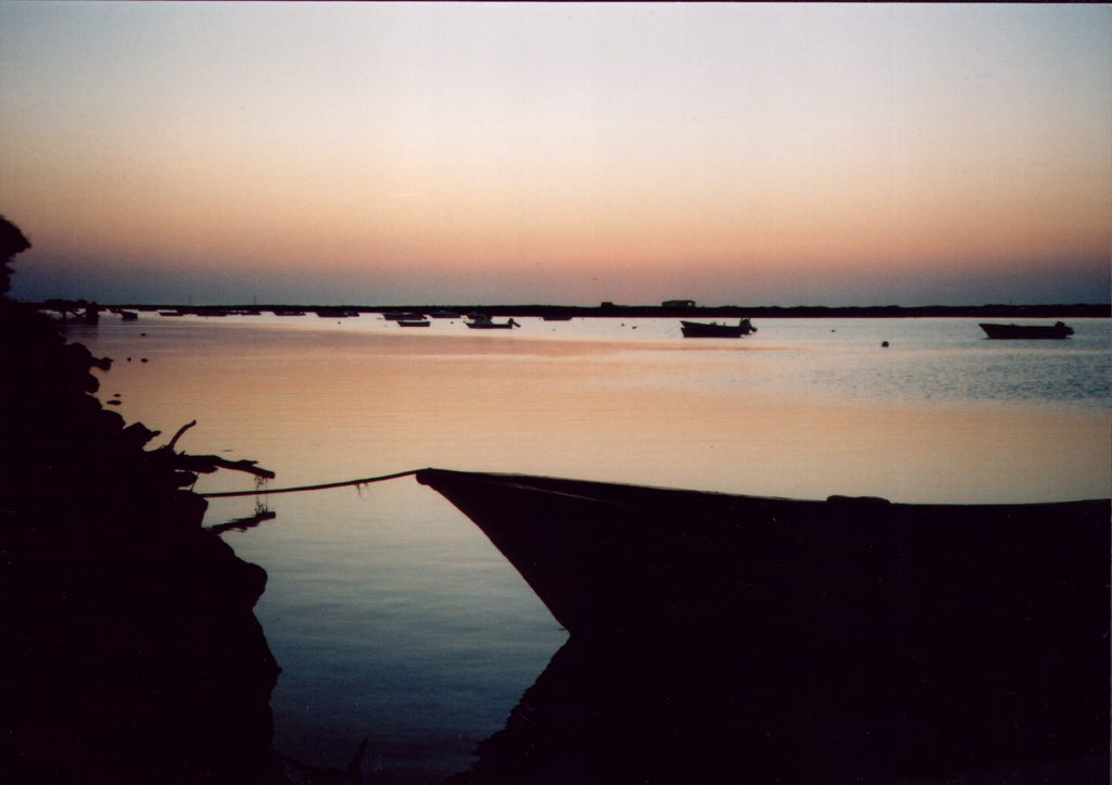 Fishing boats in the Ria Formosa at Cabanas de Tavira at sunrise. Earth's shadow on the sky is visible as a dark, grey band along the horizon.